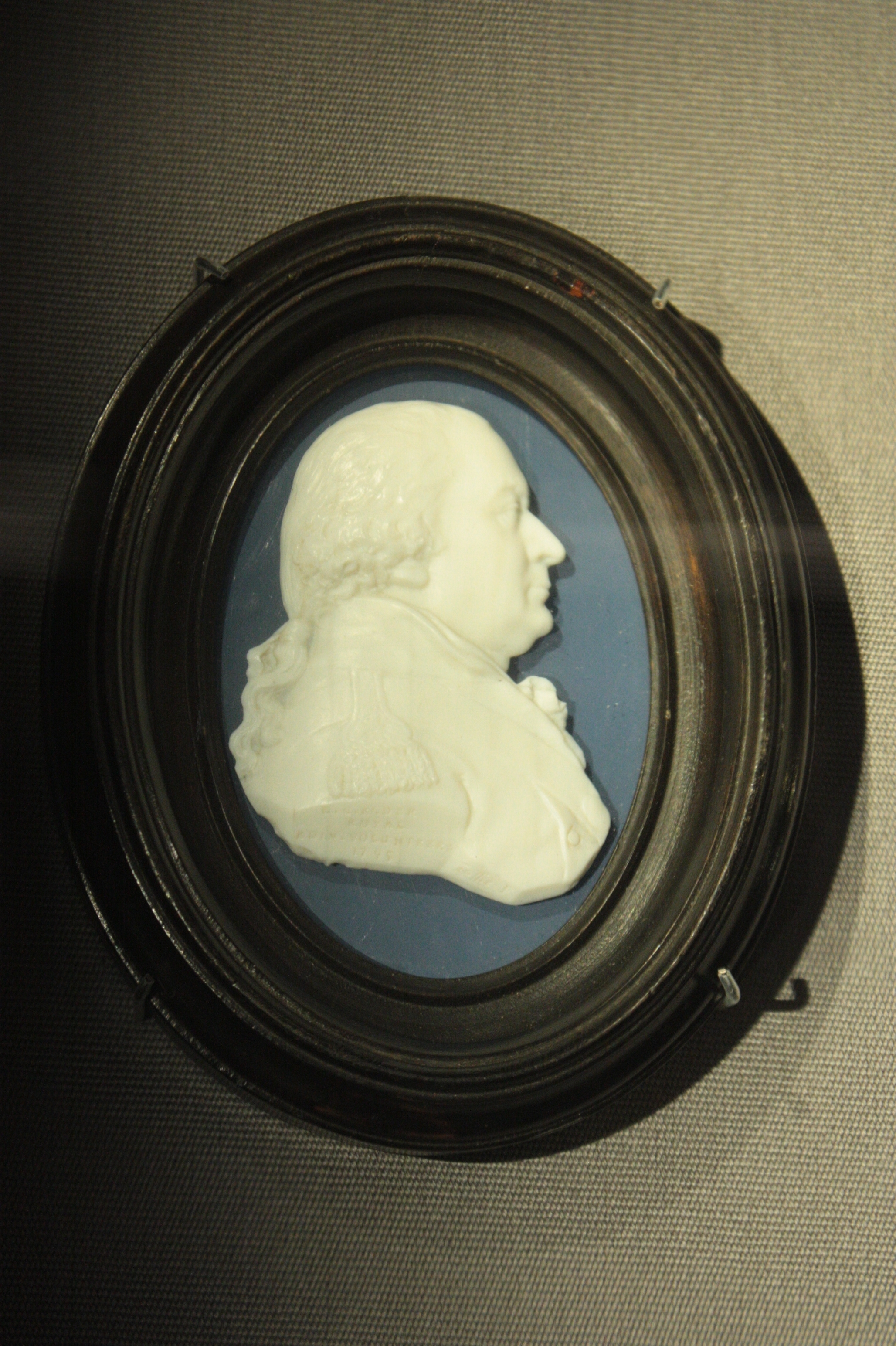 Cameo of Thomas Elder, 1795